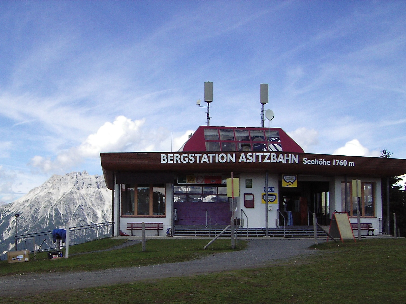 Summit station of the cable railway "Asitzbahn" of Leogang, Salzburger Land - Austria